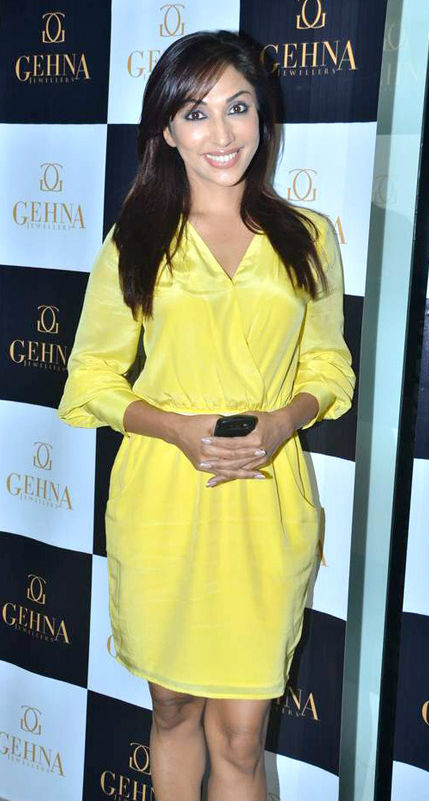 Mouli ganguly1